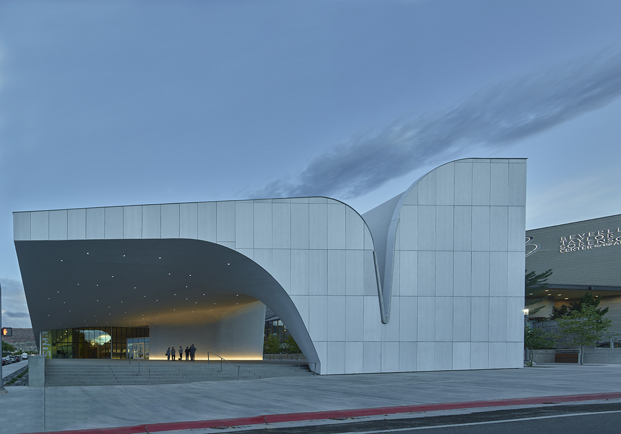 Photograph of the SUMA Museum of Art at the Beverly Taylor Sorenson Center For The Arts